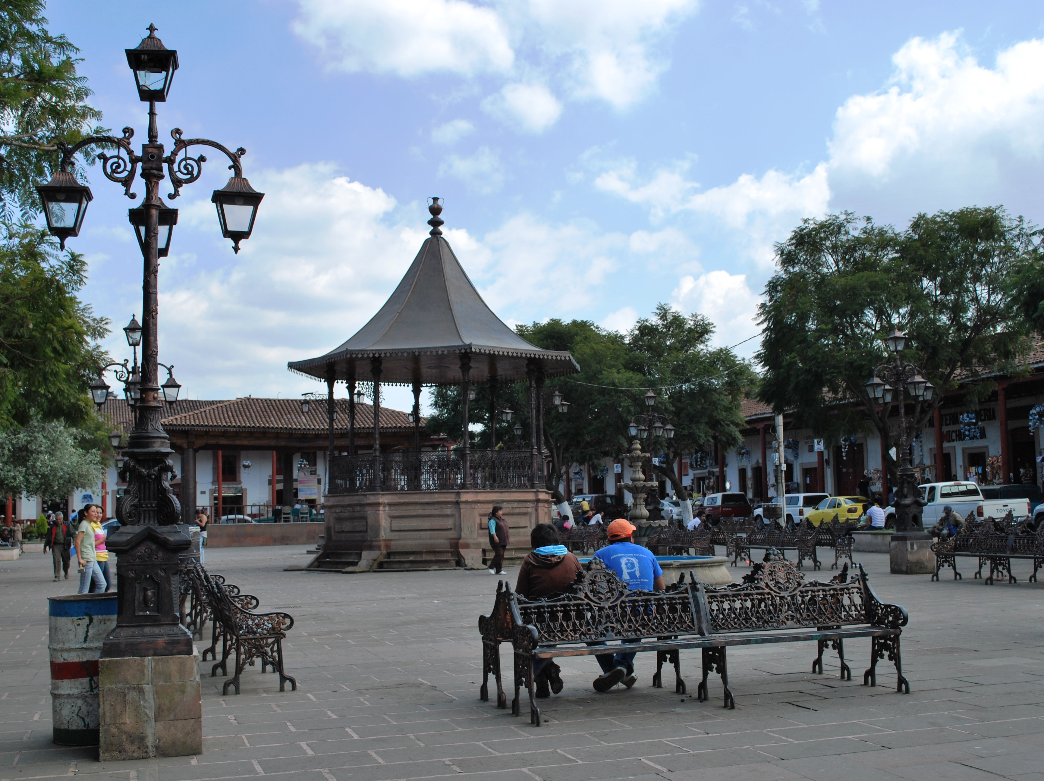 View of the main plaza of Santa Clara del Cobre, Michoacan